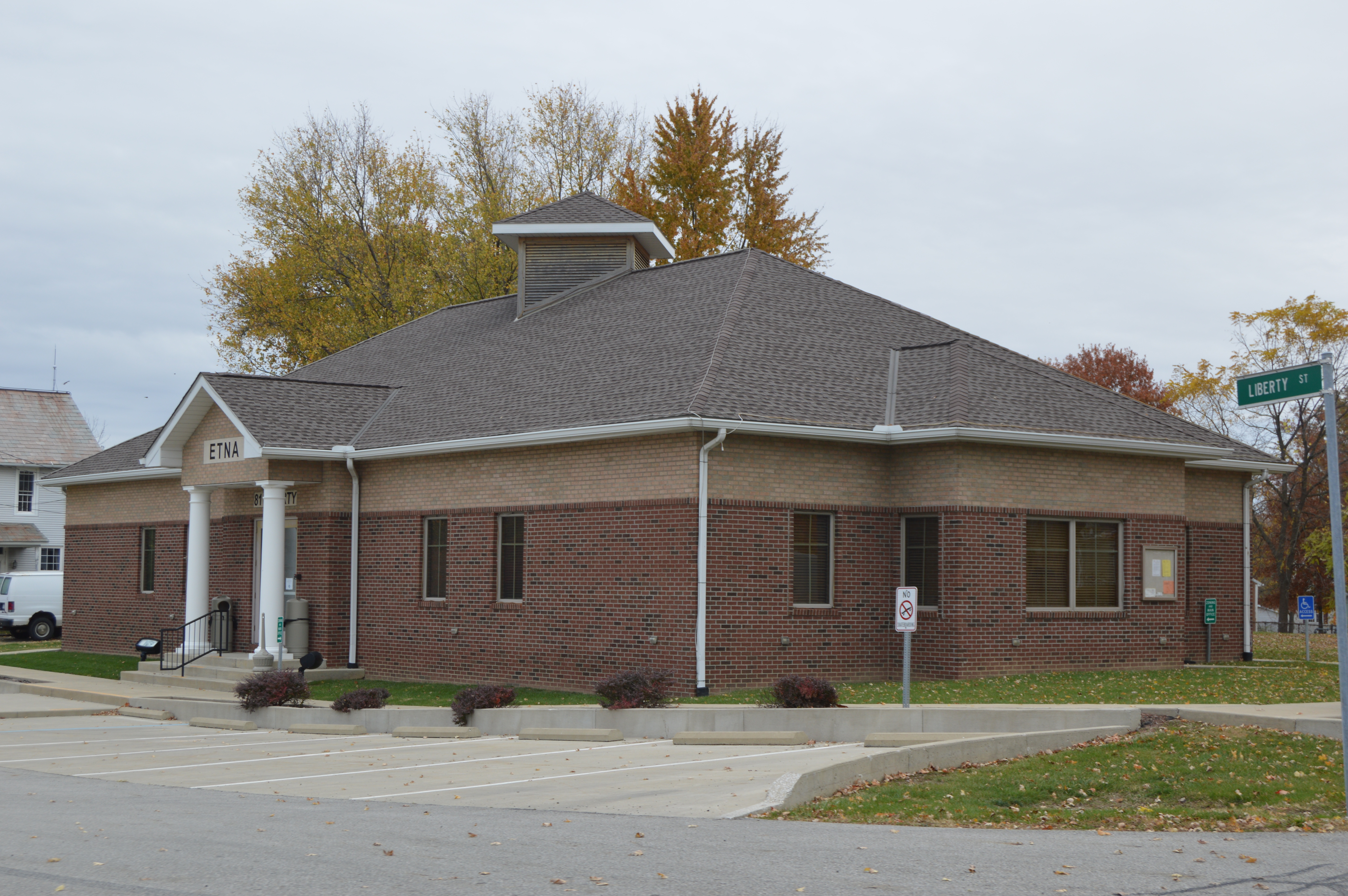 Front and southern side of the Etna Township hall, located at 81 Liberty Street in Etna, Ohio, United States.